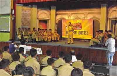 This is a picture which was taken at the Spelling-Bee held at Jhenidah Cadet College